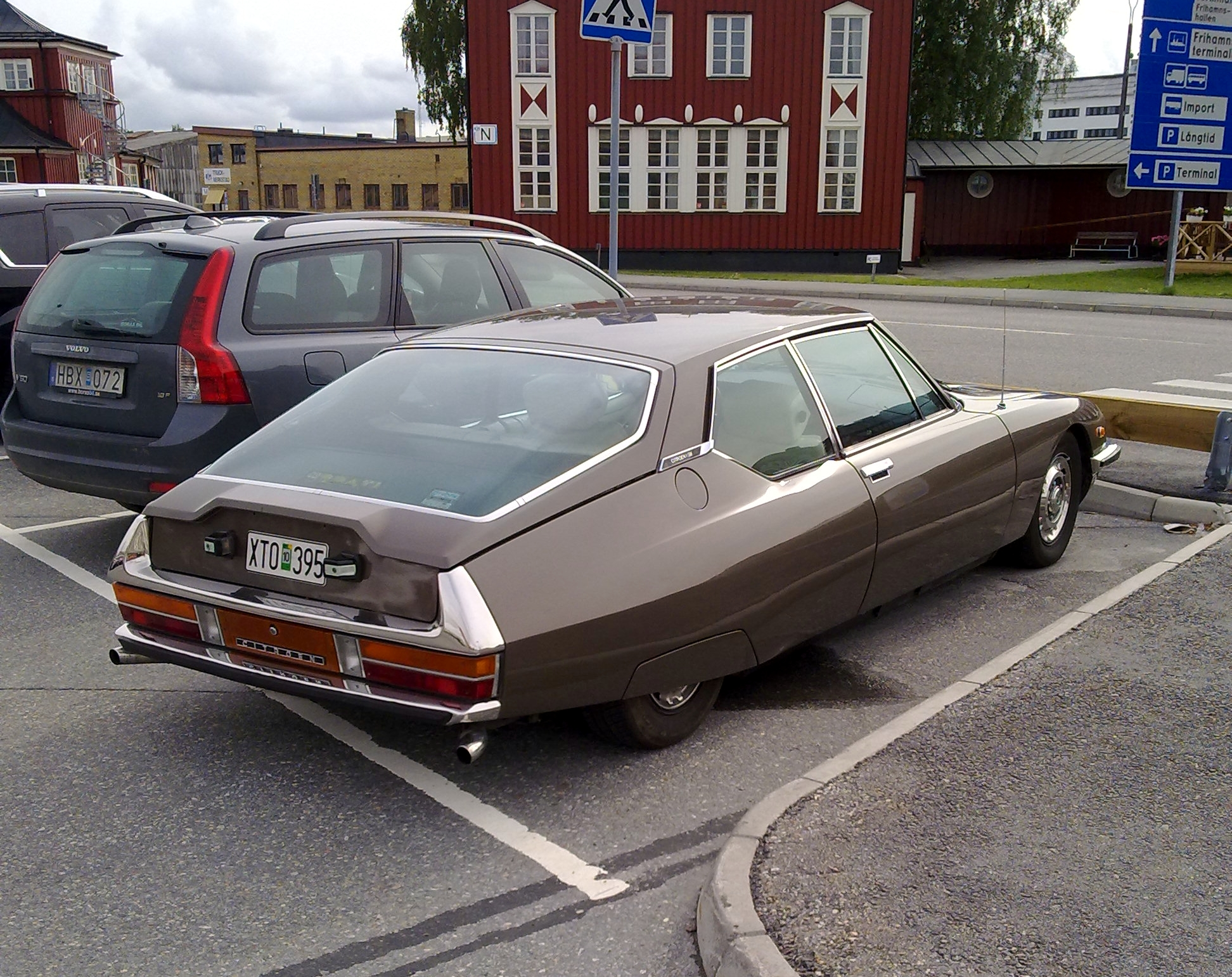 Citroen SM parked in Stockholm, Sweden, near the port